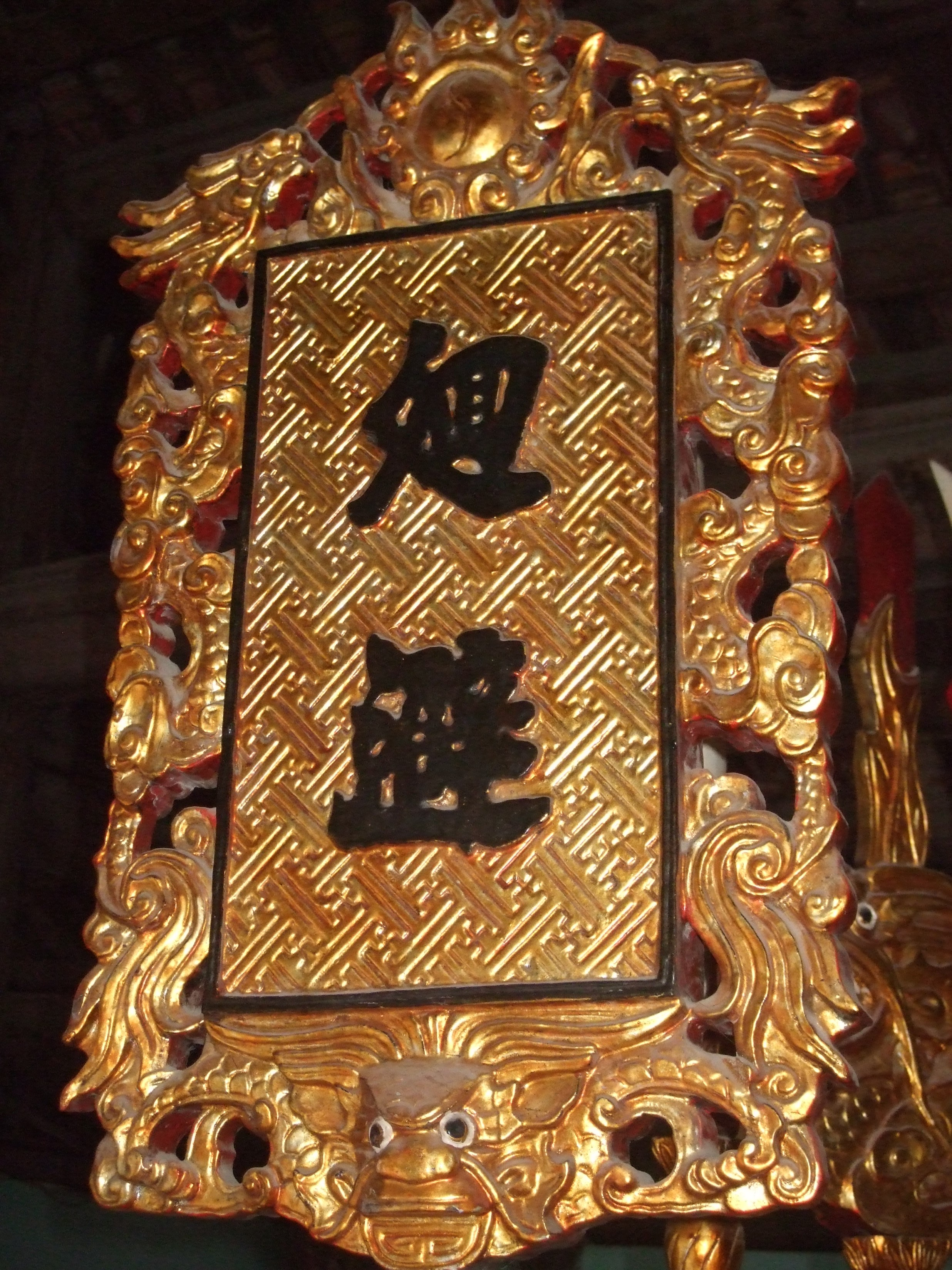 Viet royal battle standard, circa 13th century